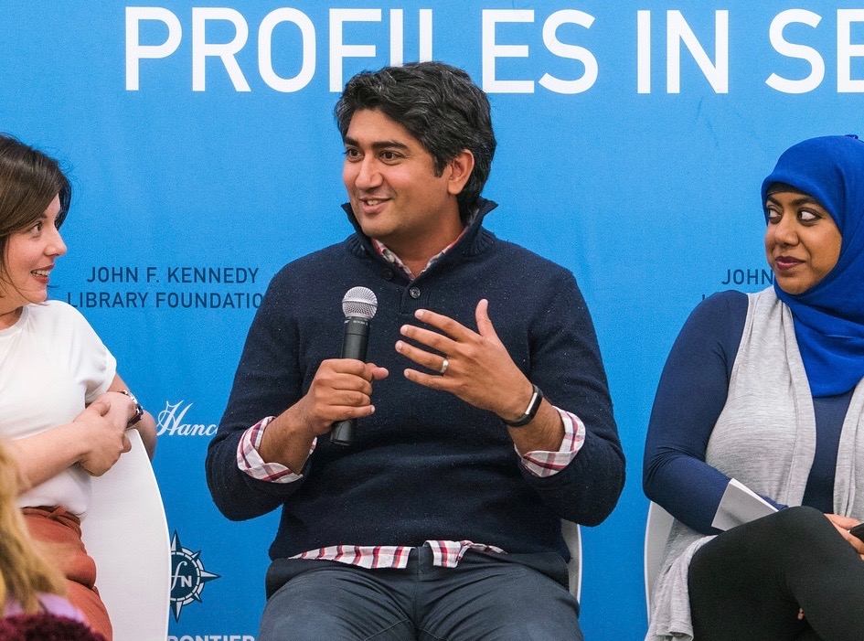 Stephanie Valencia, Aneesh Raman, Rumana Ahmed